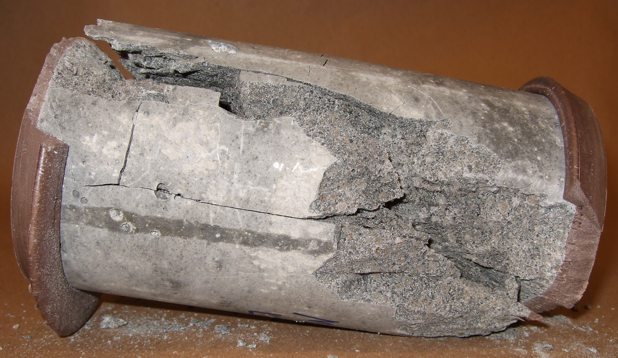 A lightweight/low-strength (~80 pounds per cubic foot) concrete cylinder after failing under load in a compression test. Note the plane of shear failure which runs from the top left to the bottom right. The failure occurred as a split failure.